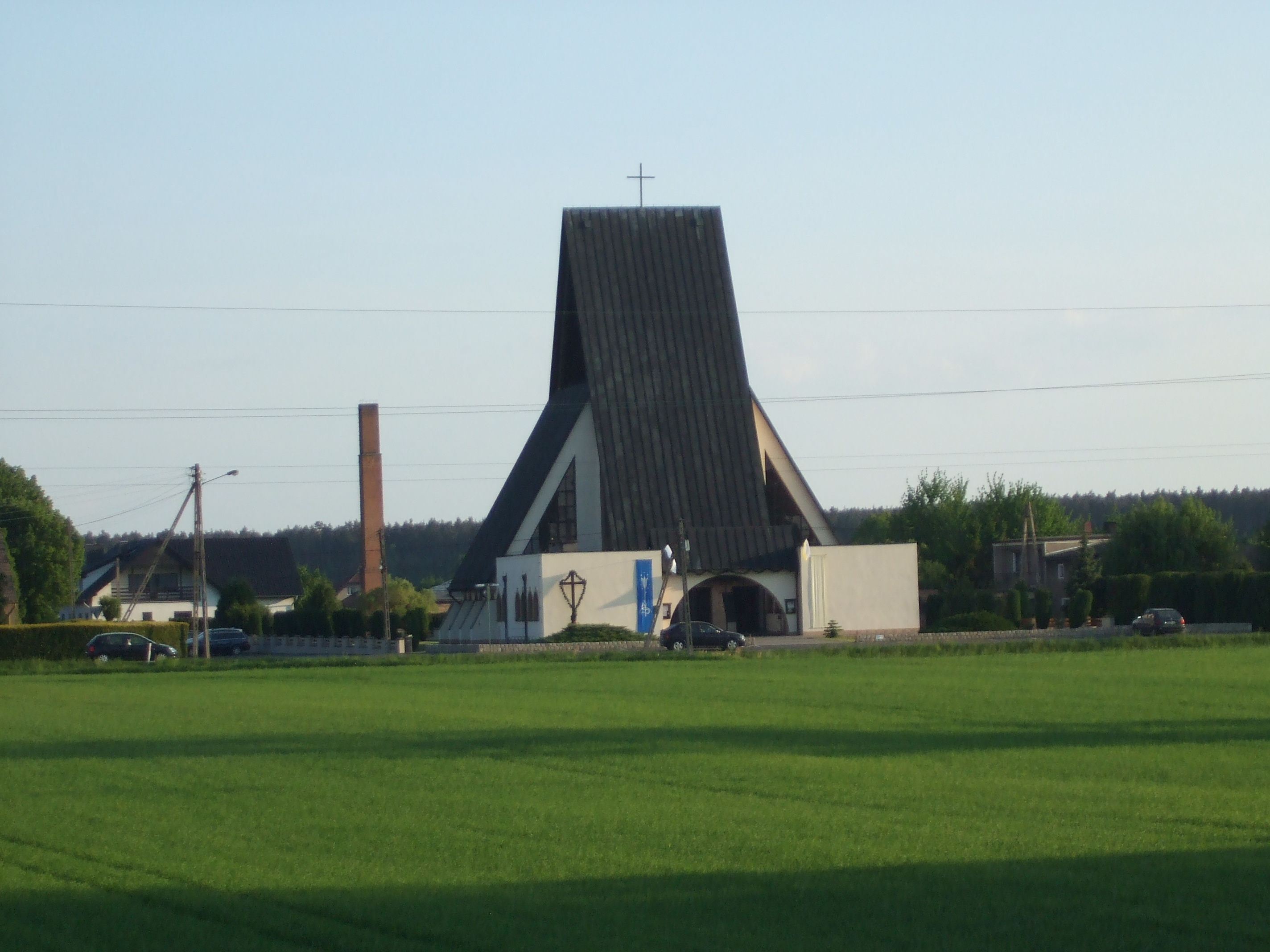 Church in Łowoszów Ślůnski: Kůśćůł we Łowoszowje